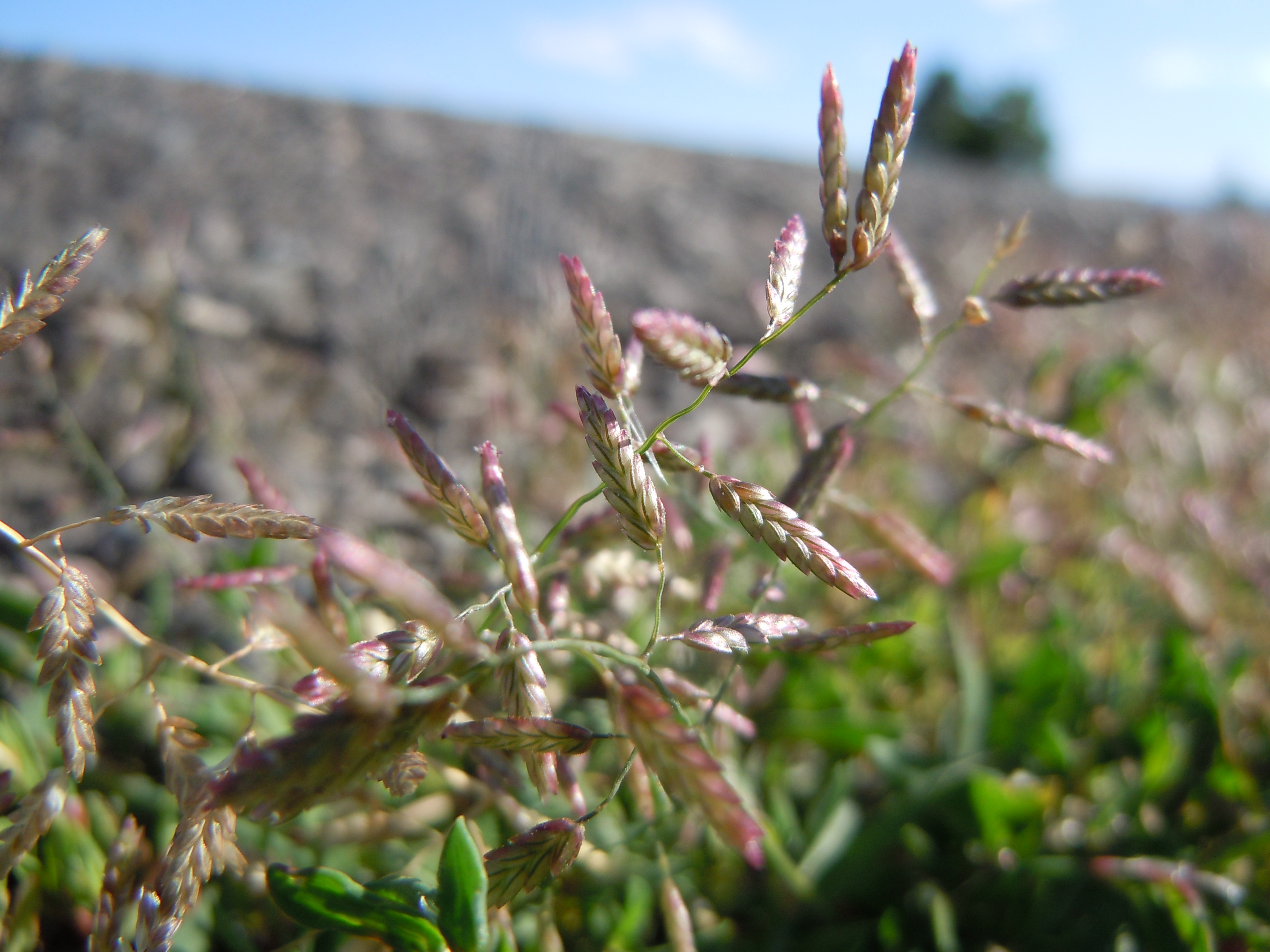 This species is a diminutive form (narrow spikelets, small stature) of the more common Eragrostis cilianensis.